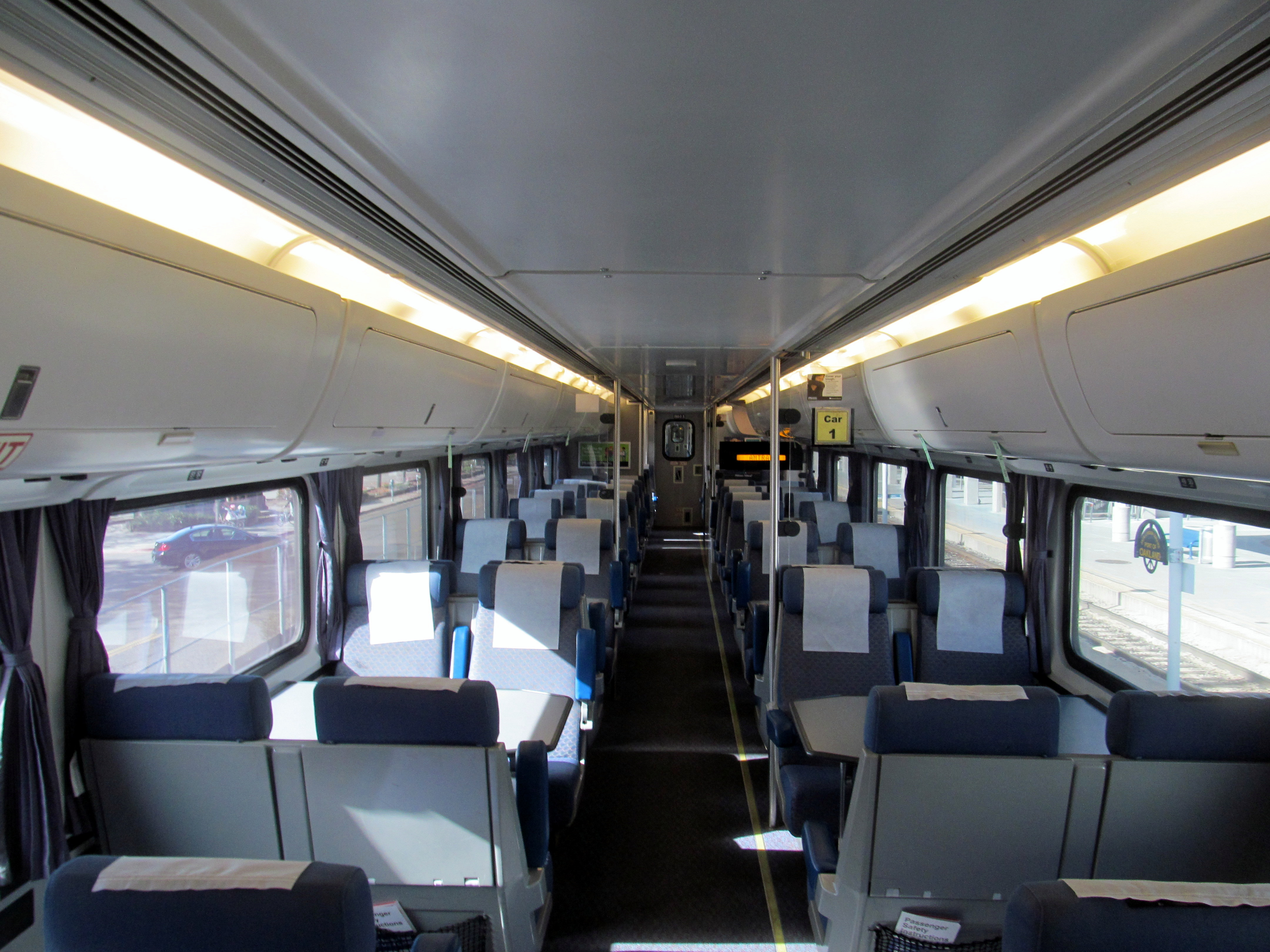 The upper level of a California Car, photographed in November 2017